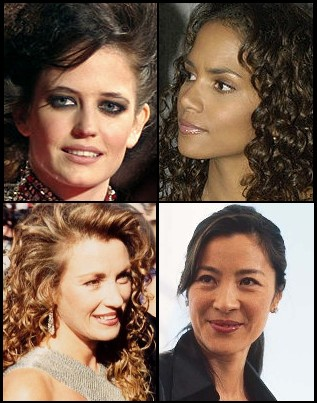 Mural bond girls